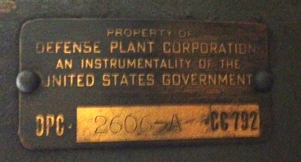 A photograph of a Defense Plant Corporation nameplate on an electric motor bought in a government surplus sale.